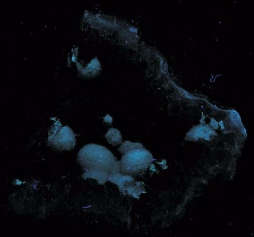 Mordenite, Quartz (Var.: Amethyst) Locality: Jalgaon District, Maharashtra, India (Locality at ) Size: 9 x 8 x 5.6 cm. A first-rate Mordenite specimen from Jalgaon. The Mordenite balls are nicely balanced across the Amethyst pocket, giving the specimen fine balance to go along with the beautiful contrast in color. The Mordenites have excellent definition, where you can actually see the terminations of the fine needles that comprise each ball, the largest of which is 1.3 cm across. The Mordenite even has a fine white fluorescence. Ex. Charlie Key.